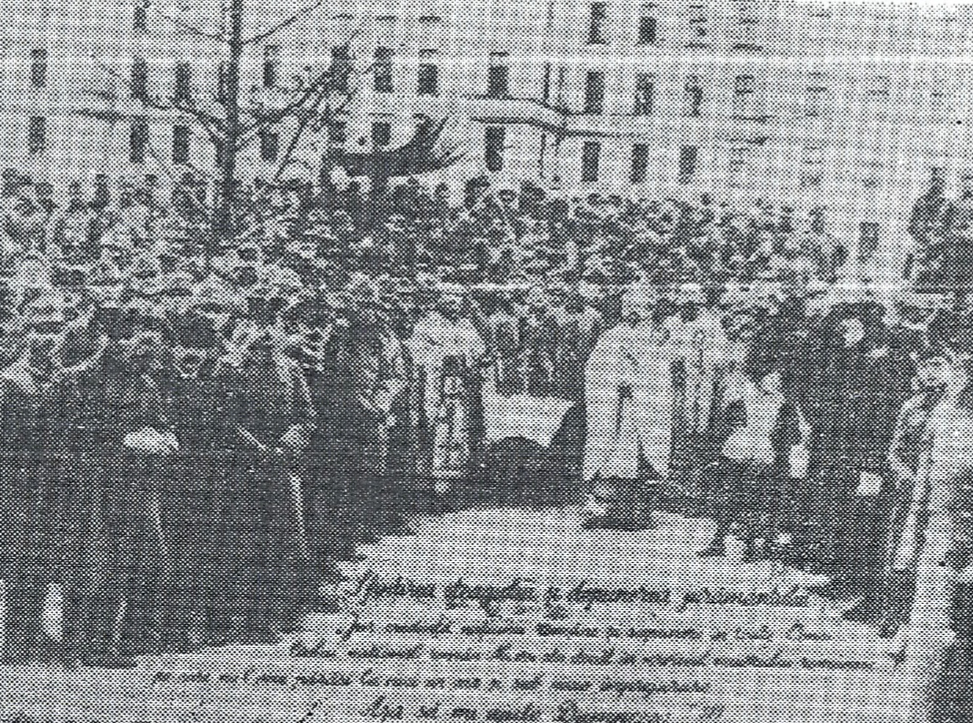 The oath of the „Council of the Romanian soldiers and officers from Transylvania, Bukovina, Hungary and Vienna” on October, the 31th of 1918. In the photo are present the following doctors: 1. Leonida Pop, 2. Marius Sturza, 3. Nicolae I. Hozan, 4. Lazăr Popovici, 10. Ion Moga, 11. Virgil SolomonRomână: Depunerea jurământului „Consiliului soldaților și ofițerilor români din Transilvania, Bucovina, Ungaria și Viena” din 31 octombrie 1918. În fotografie sunt prezenți următorii doctori: 1. Leonida Pop, 2., 3. Nicolae I. Hozan, 4. Lazăr Popovici, 10. Ion Moga Virgil Solomon